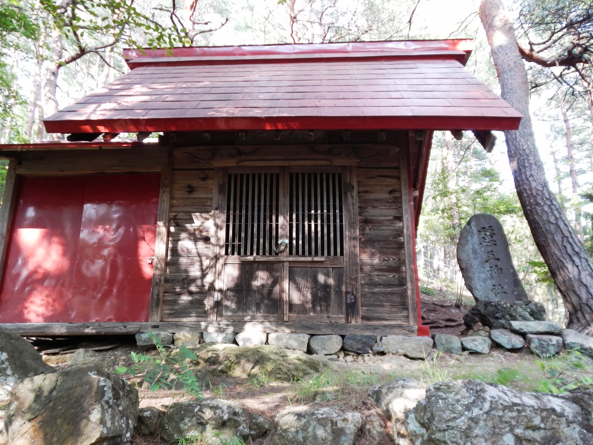 Toyohira, Chino, Nagano Prefecture 391-0213, Japan